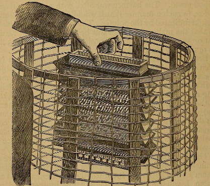 Sketch of the medium Daniel Dunglas Home holding an accordion in a cage.